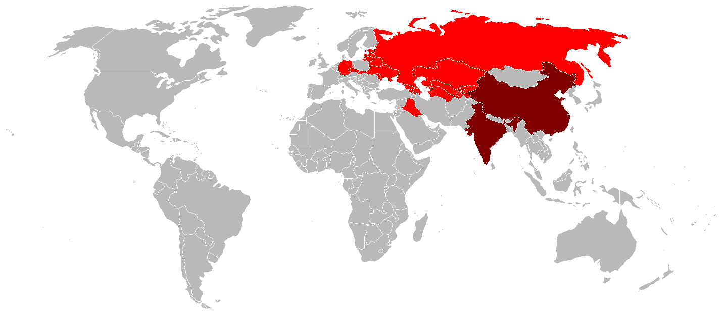 World map of Tupolev Tu-124 operators